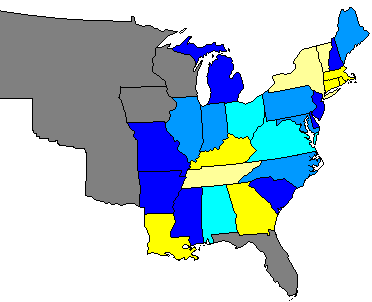 Summary of party control of U.S. house seats in the 26th United States Congress following election. Stripes indicate a tie between two or more parties. Legend: 80.1-100% Democratic seat majority 60.1-80% Democratic seat majority 60% or less Democratic seat plurality 60% or less Whig seat plurality 60.1-80% Whig seat majority 80.1-100% Whig seat majority